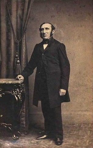 Danish jeweler Peter Hertz (1811-1885)